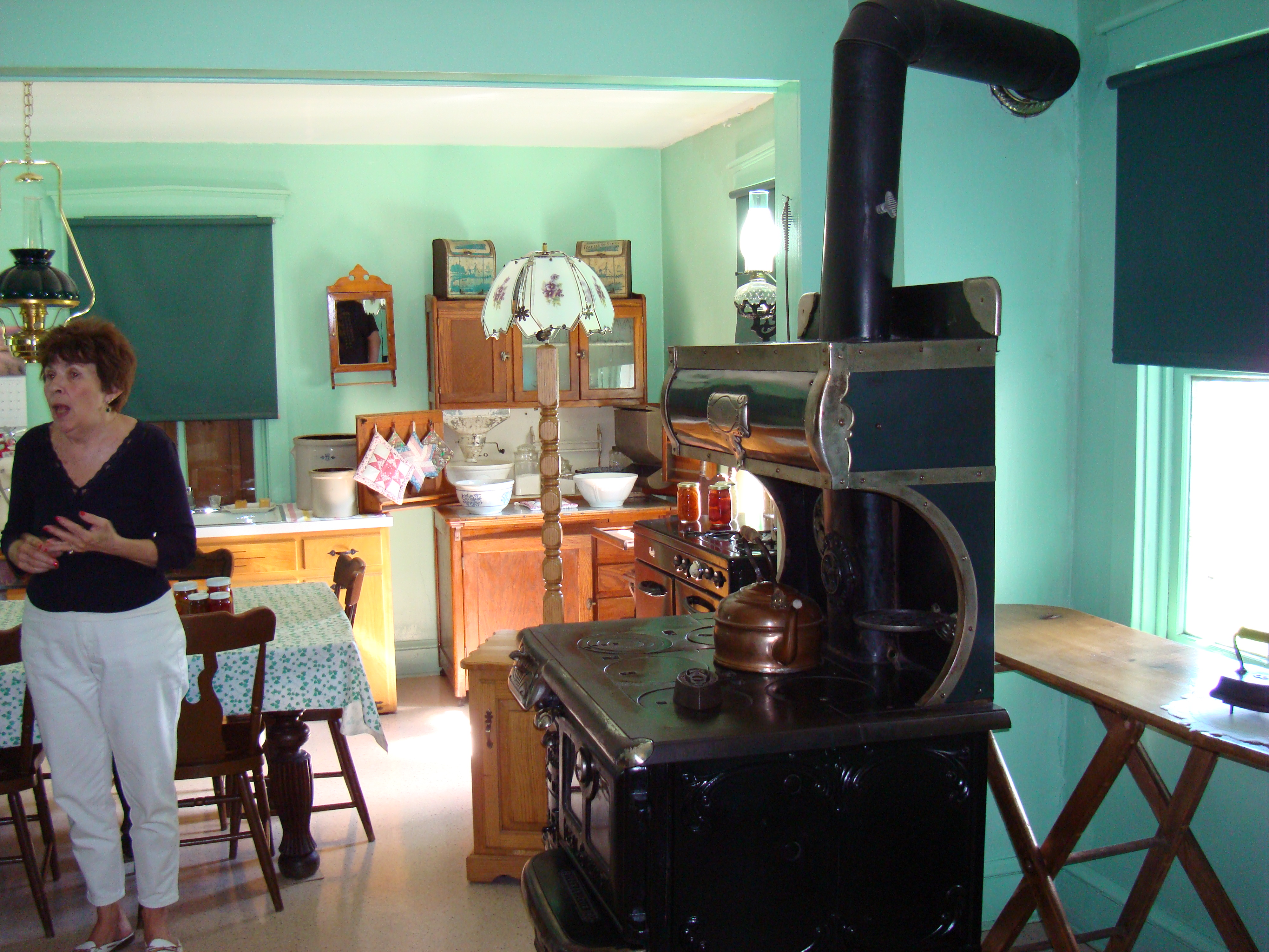 Kitchen in The Amish Village, Strasburg Township, Lancaster County, Pennsylvania, USA